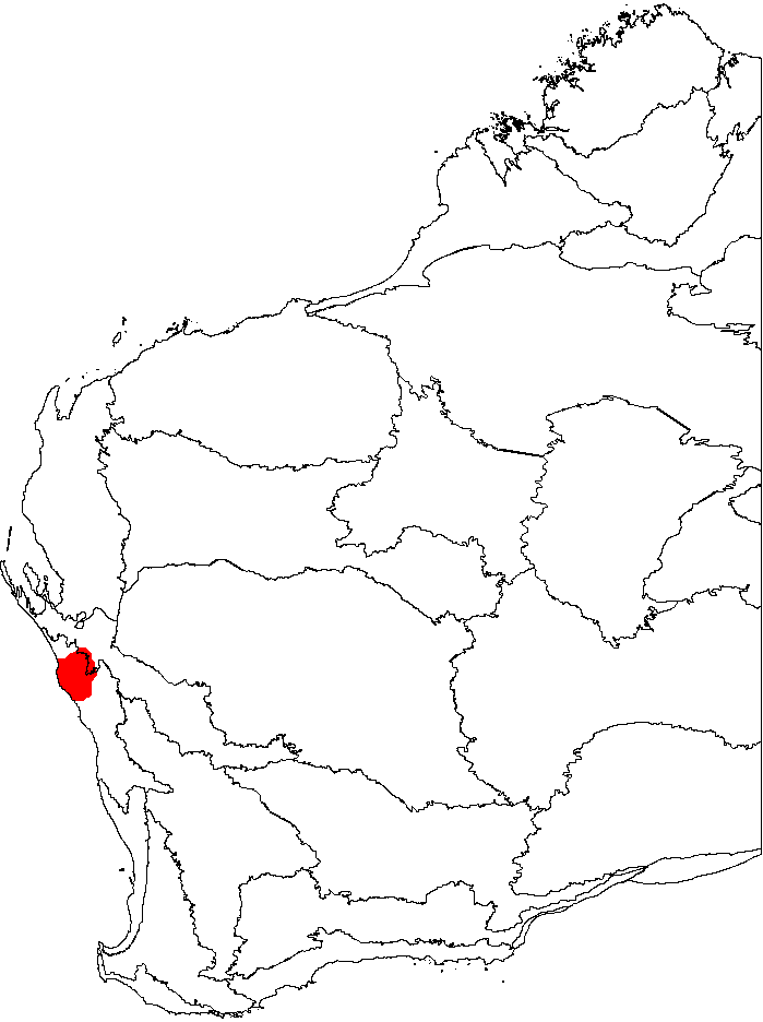 This is a map of Western Australia, showing the distribution of Banksia victoriae (Woolly Orange Banksia) on a map of the IBRA 6.1 biogeographic regions.